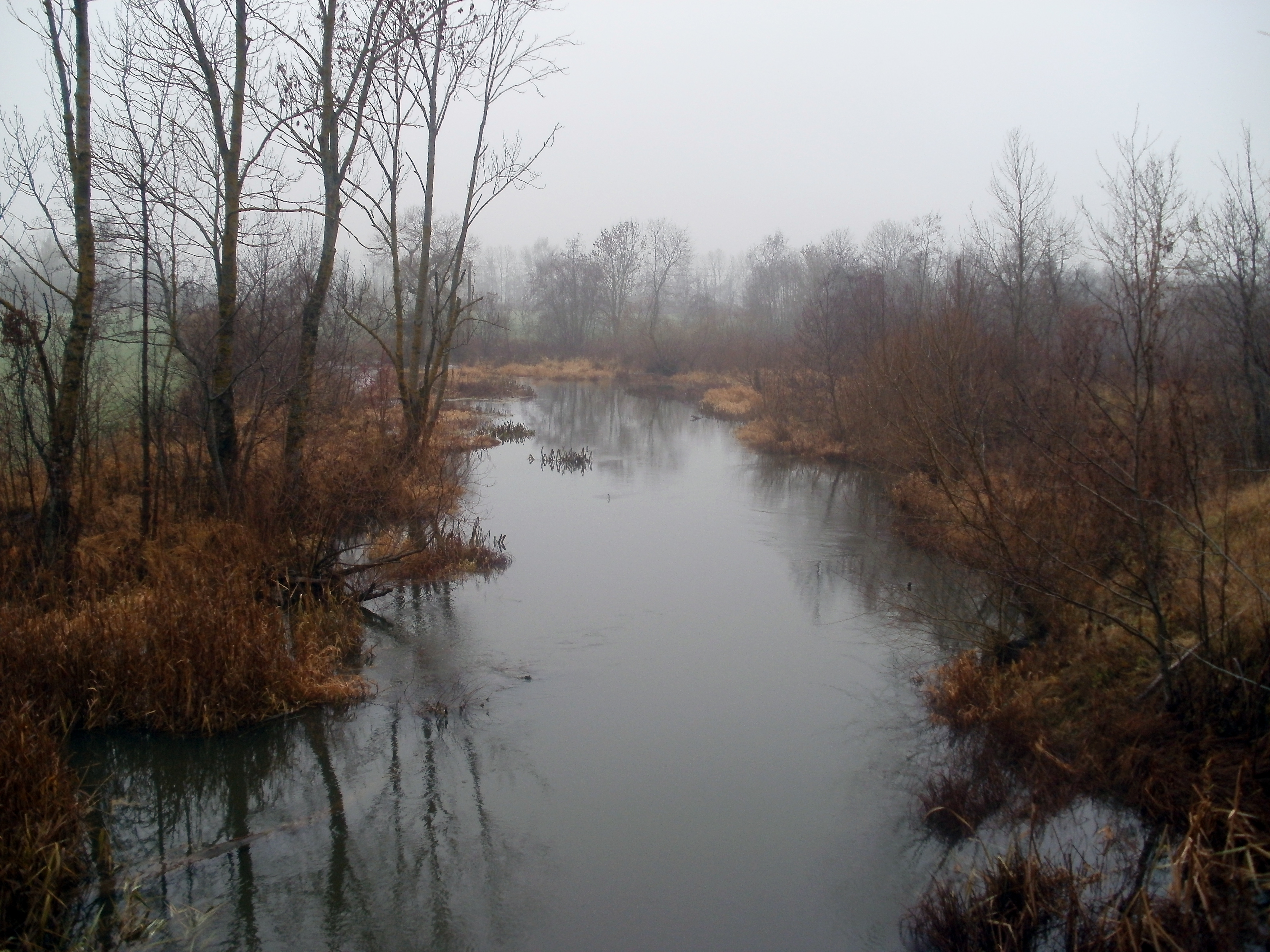 Audruve River near road P103 in Jelgava municipality, LatviaLatviešu: Audruve pie autoceļa P103 Jelgavas novadā